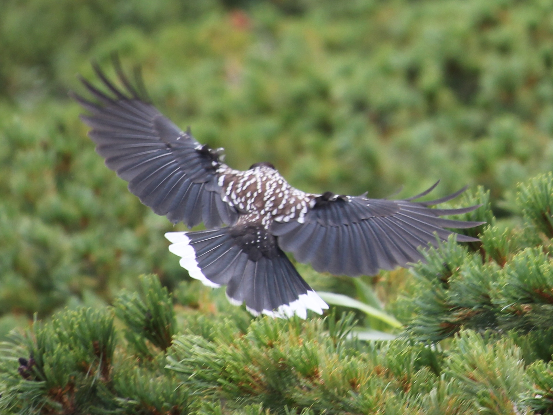 Nucifraga caryocatactes and Pinus pumila in Mount Ontake, Nagano prefecture, Japan.